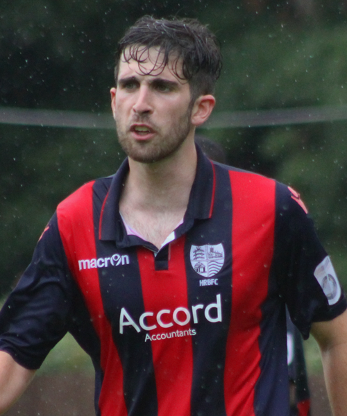 Max Kretzschmar playing for Hampton & Richmond Borough in July 2017.